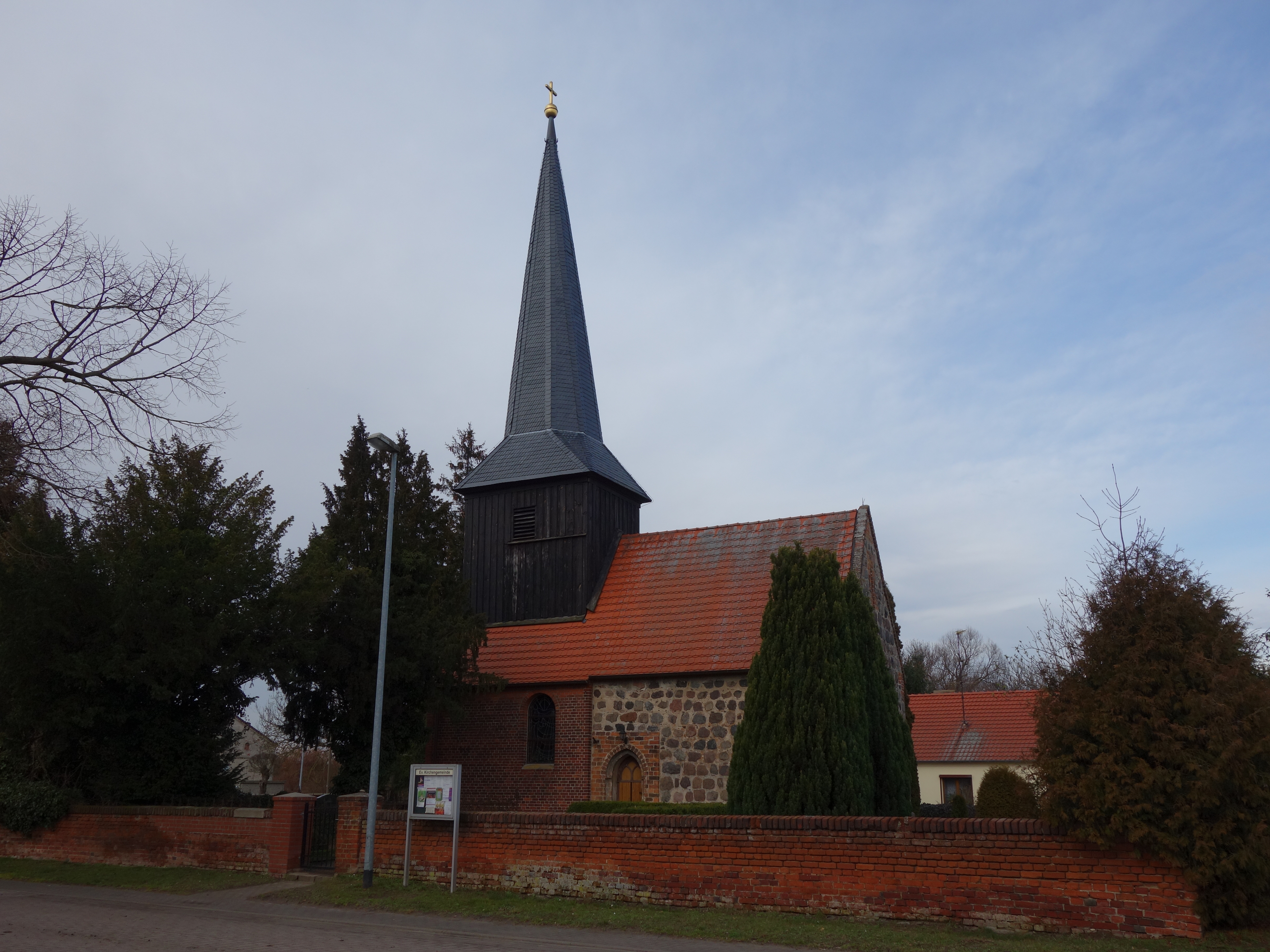 South-south-eastern view of Küdow church, Temnitztal municipality, Ostprignitz-Ruppin district, Brandenburg state, Germany